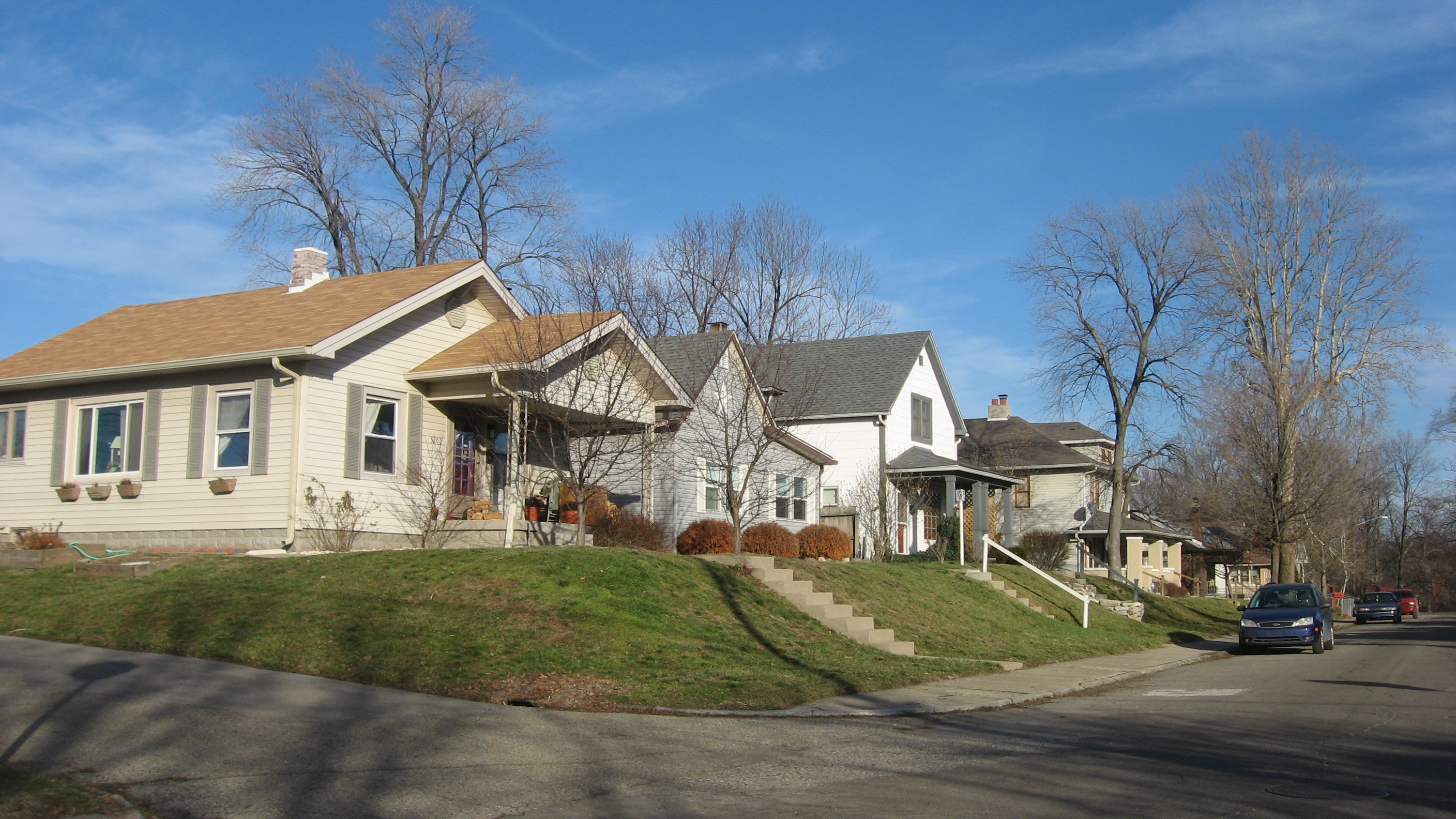 Houses at 5202-5216 E. Walnut Street in Indianapolis, Indiana, United States, as follows: 5202 Walnut: built 1925, bungalow 5206 Walnut: built 1905, venacular architecture 5210 Walnut: built 1925, bungalow 5216 Walnut: built 1925, American craftsman style This block is part of the Emerson Avenue Addition Historic District, a historic district that is listed on the National Register of Historic Places.